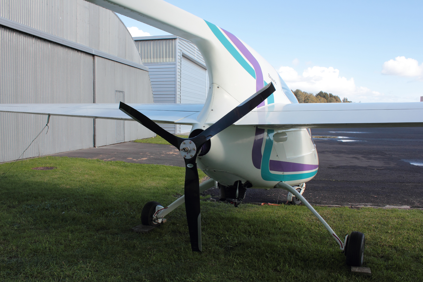 ZK-JEK Barber Snark HA/3 (001), , 09 July 2013 - Ardmore